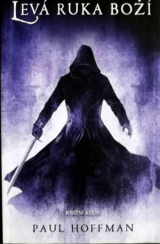 Cover of The Left Hand of God, a 2010 novel by Paul Hoffman.